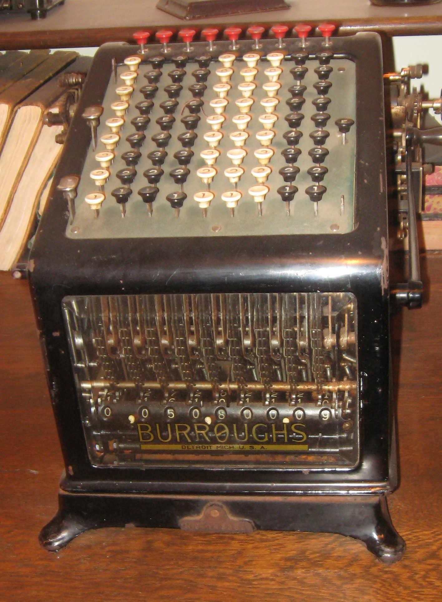 1890s adding machine, shot at Western Development Museum, Saskatoon